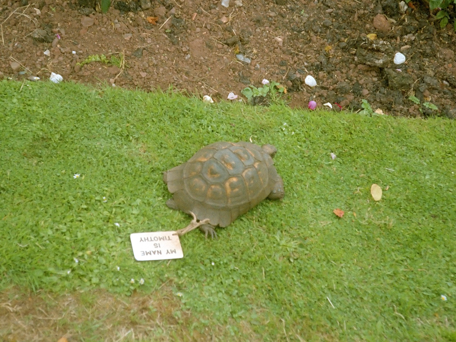 This is Timothy the tortoise in the garden of Powderham Castle.